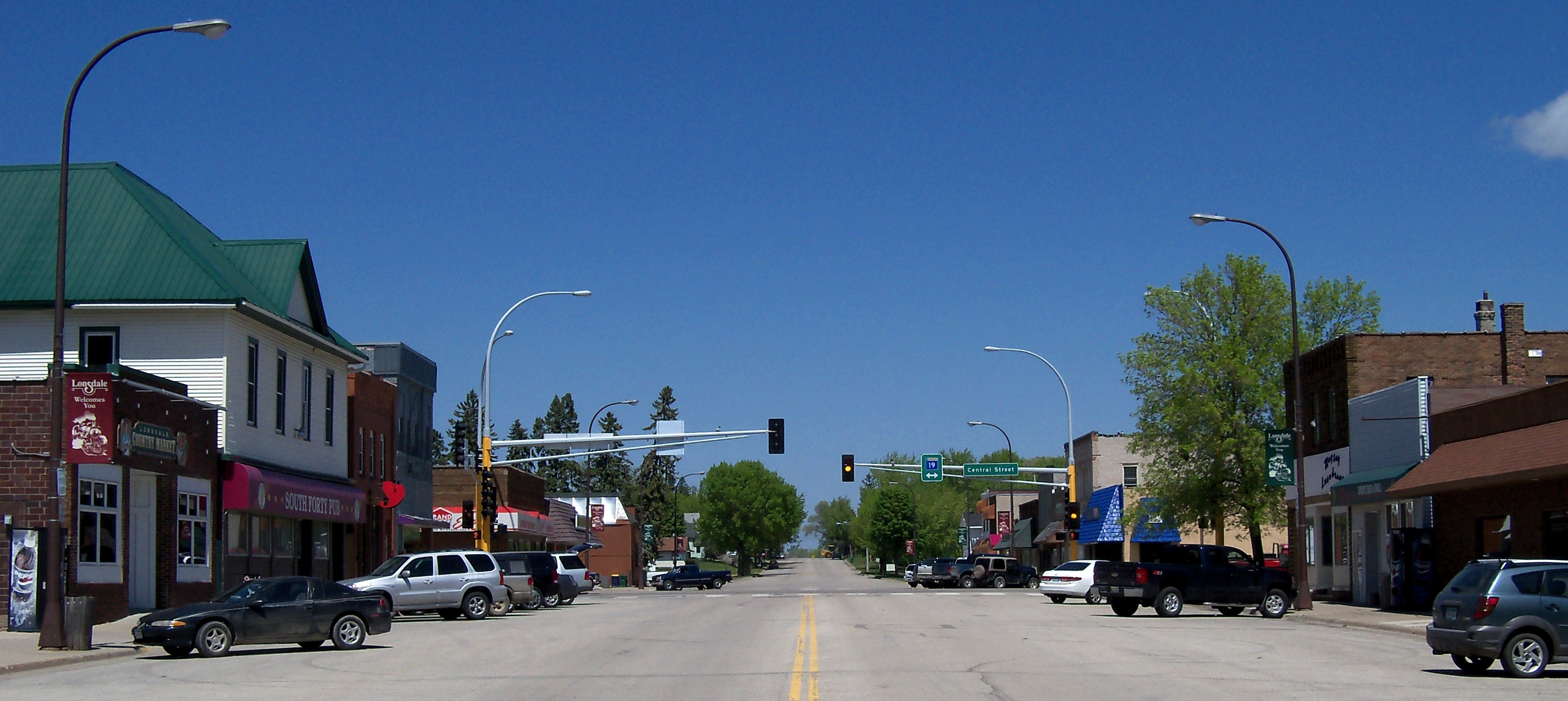 Street in downtown Lonsdale, Minnesota, USA.